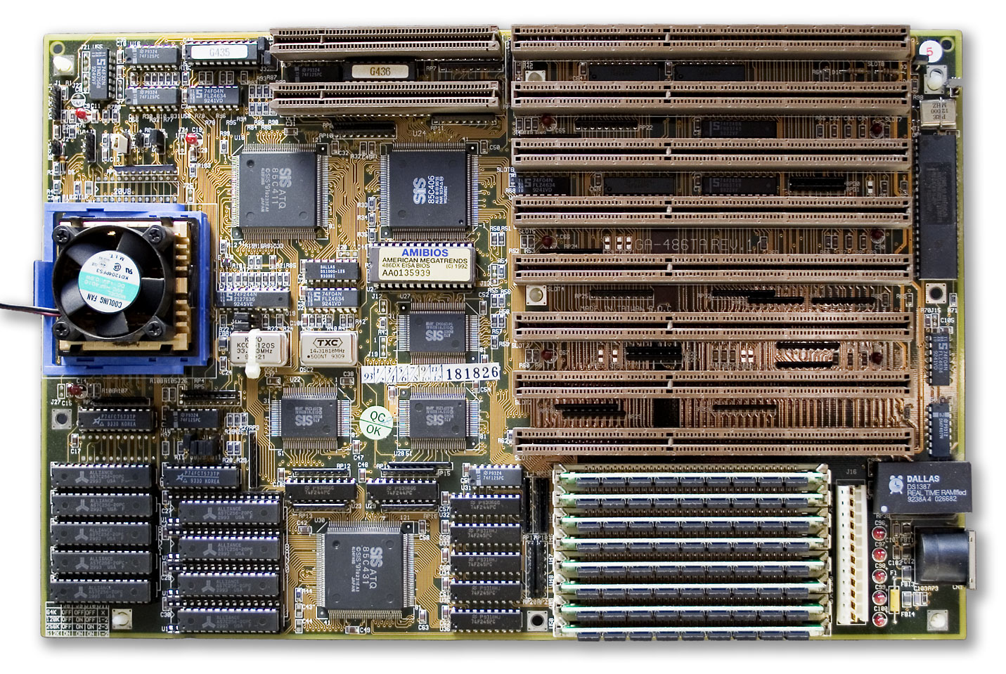 Gigabyte GA-486TA Baby AT Motherboard with an Intel 486DX CPU under the heatsink and fan. A series of EISA slots line the right hand side.